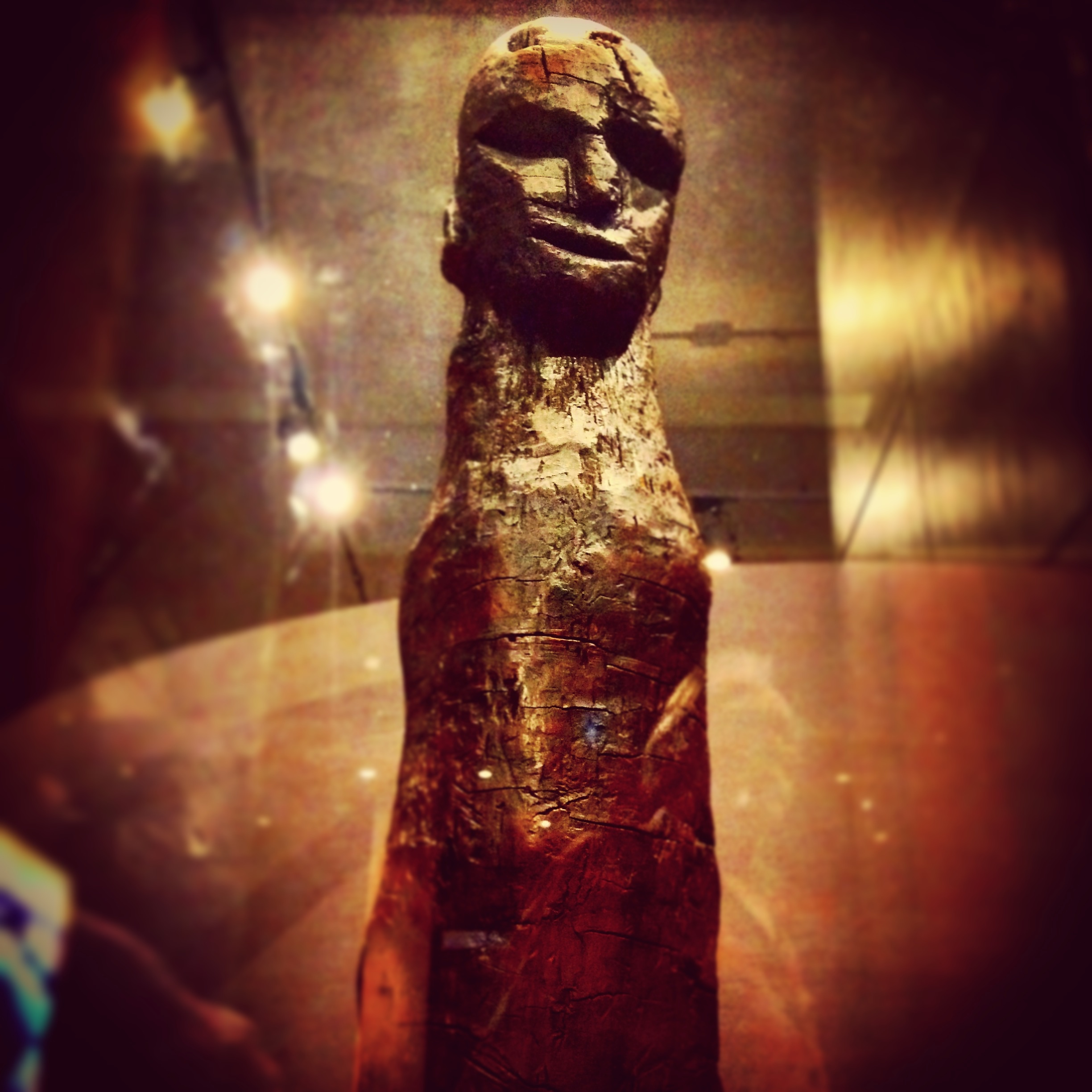 Ralaghan Figure